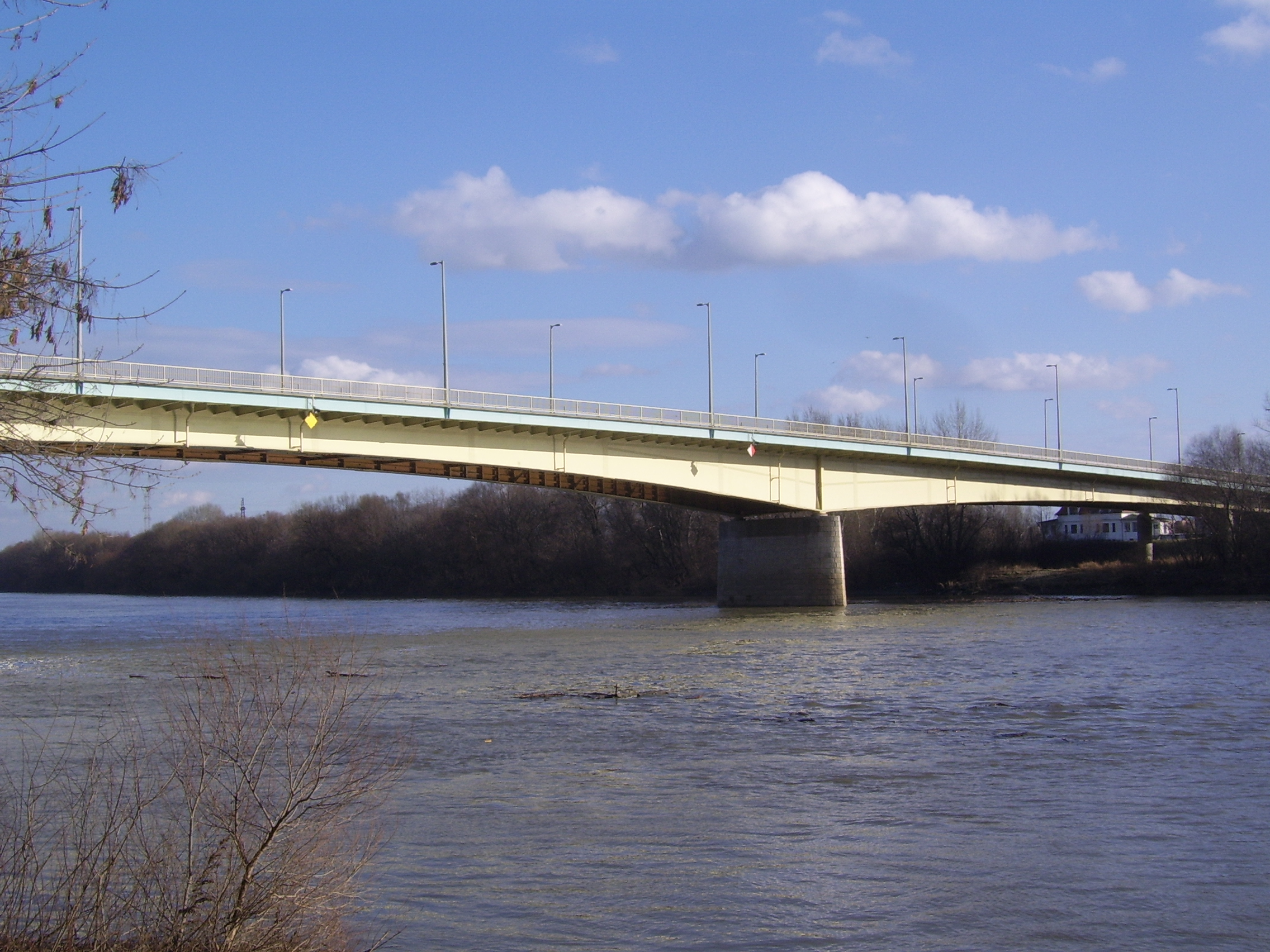 The Beratan Bridge in Szeged, Hungary